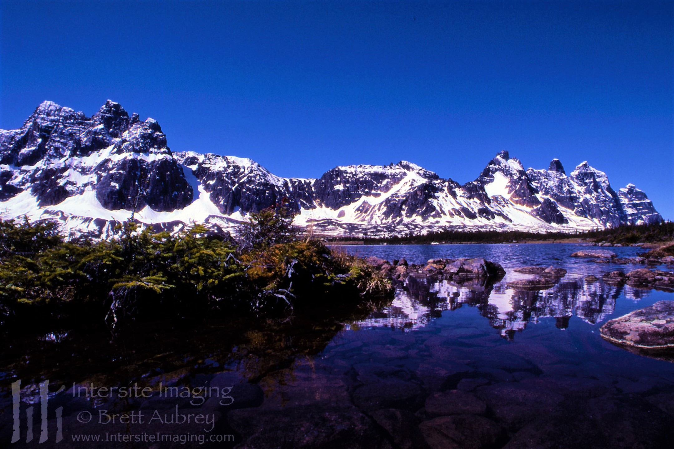 Amethyst Lakes & Tonquin Valley Ramparts in Jasper National Park